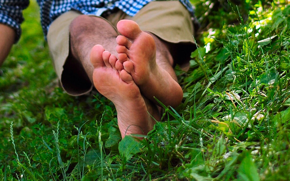 An image of an individual's bare feet, crossed, in the grass of New York City's Central Park.